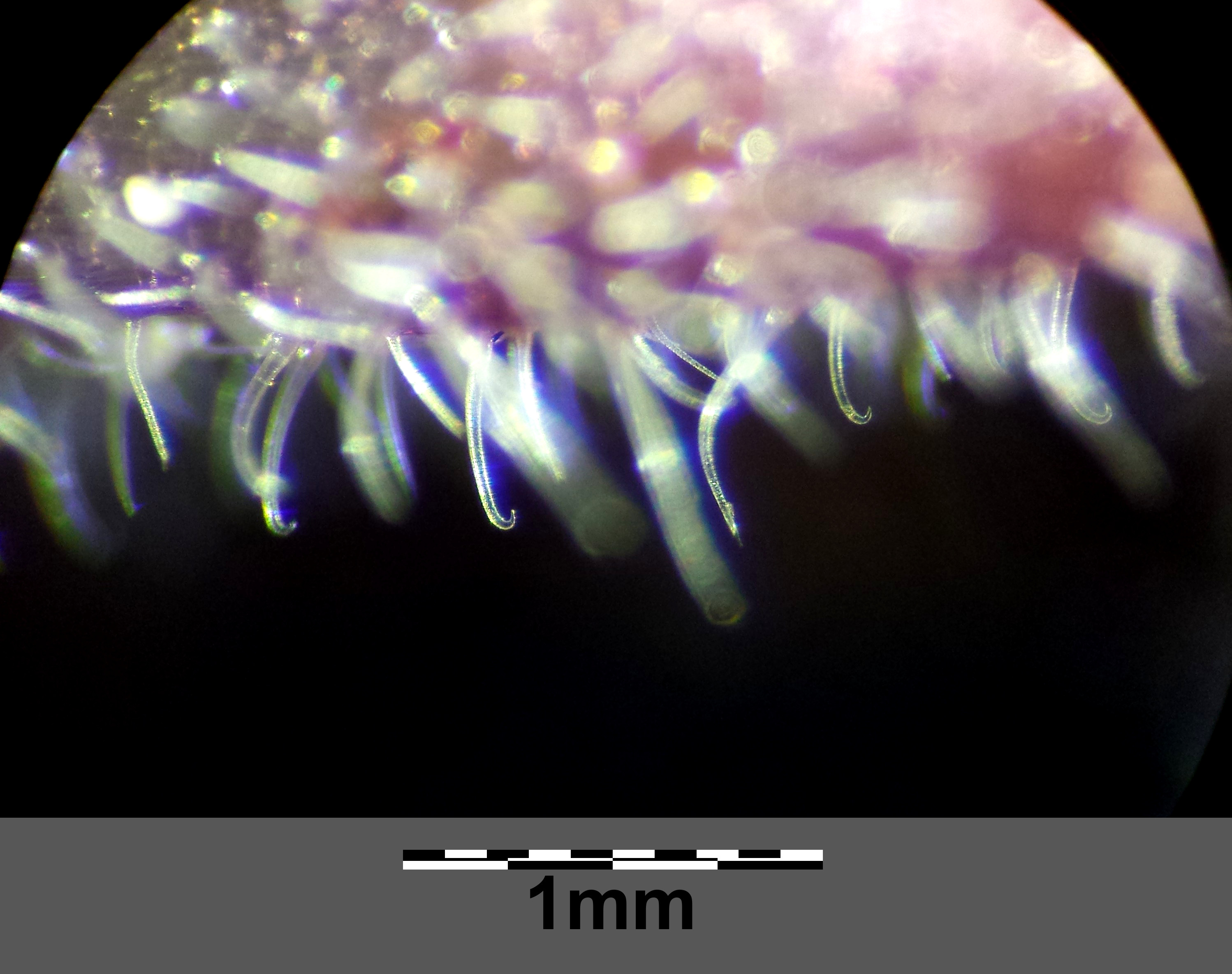 Bottom side of leaf with hooked hairs Taxonym: Myosotis stricta ss Fischer et al. EfÖLS 2008 ISBN 978-3-85474-187-9 Location: Floridsdorf rail station, Vienna-Floridsdorf - ca. 160 m a.s.l. Habitat: sandy area